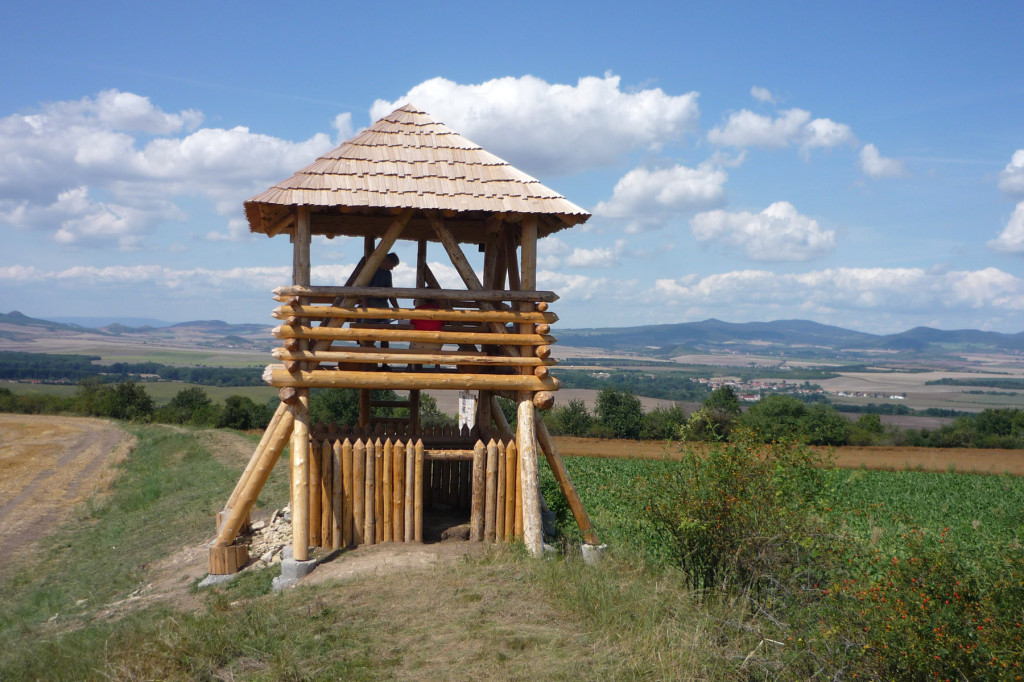 Tower Stradonka